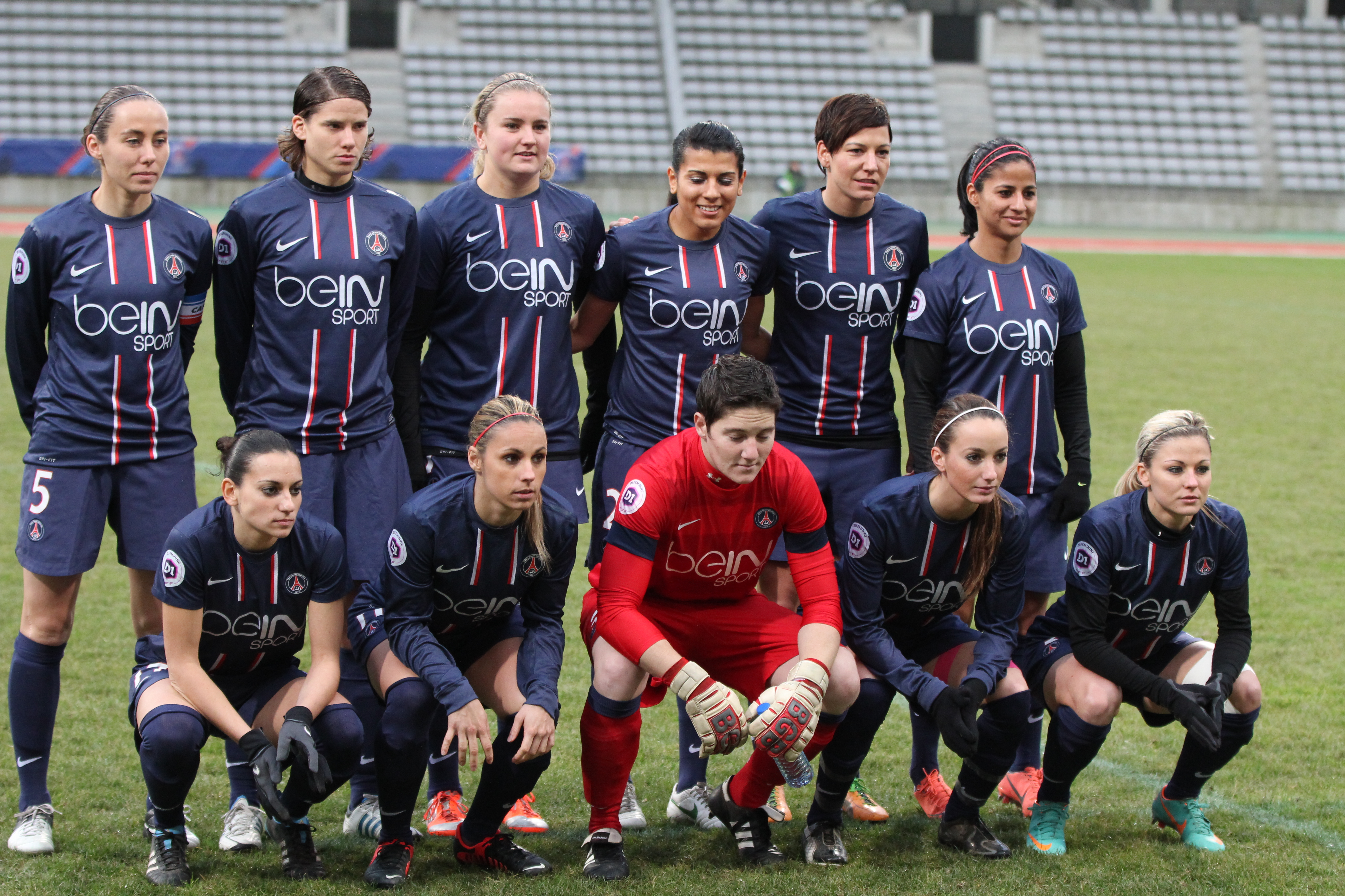 Team of Paris Saint-Germain FC Ladies, PSG-Juvisy, december 9th, 2012. top : Sabrina Delannoy, Annike Krahn, Lindsey Horan, Kenza Dali, Linda Bresonik, Shirley Cruz bottom : Aurélie Kaci, Jessica Houara, Véronique Pons, Kosovare Asllani, Laure Boulleau